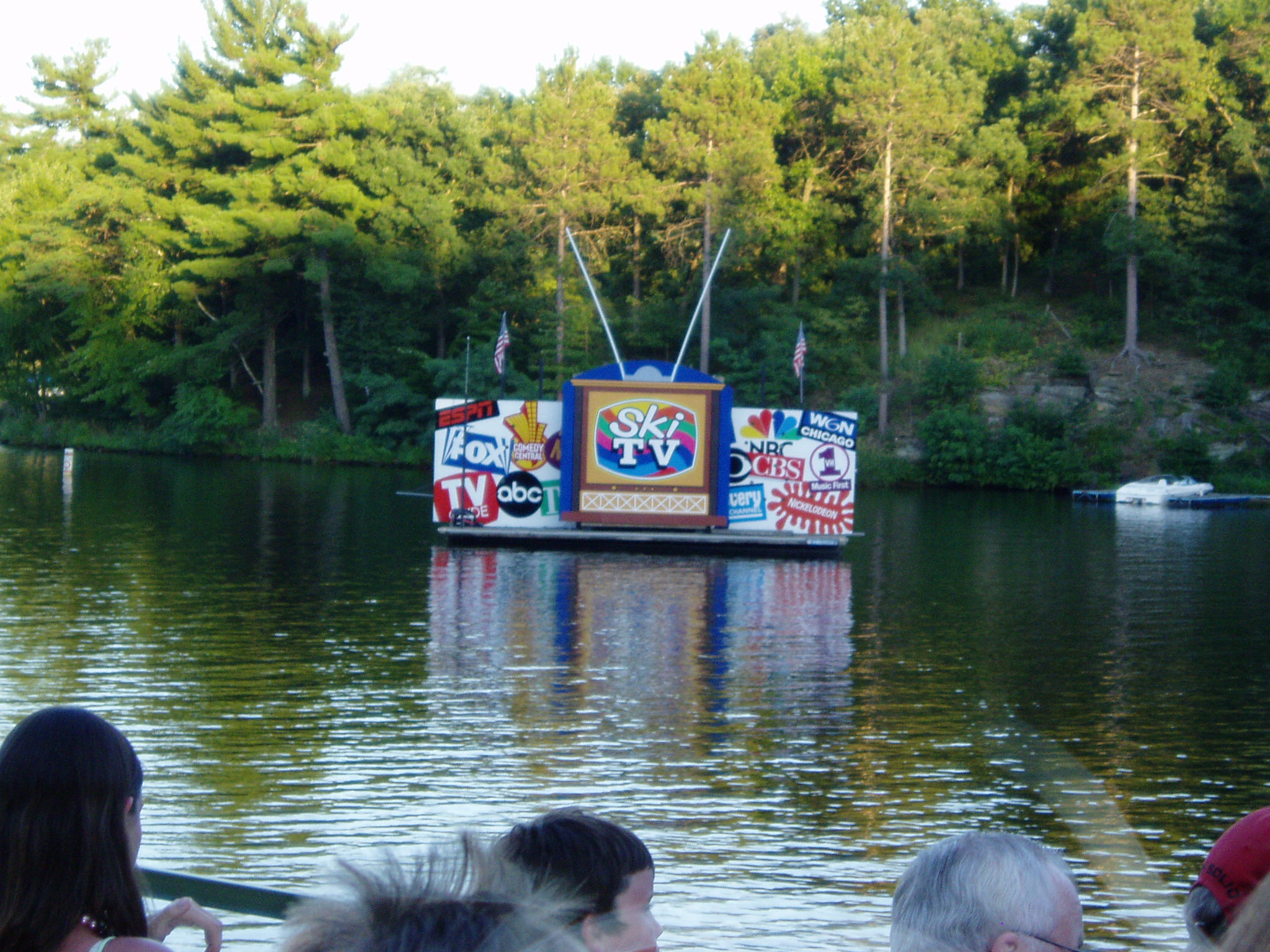 The Tommy Bartlett Show on Lake Delton near Lake Delton, Wisconsin.